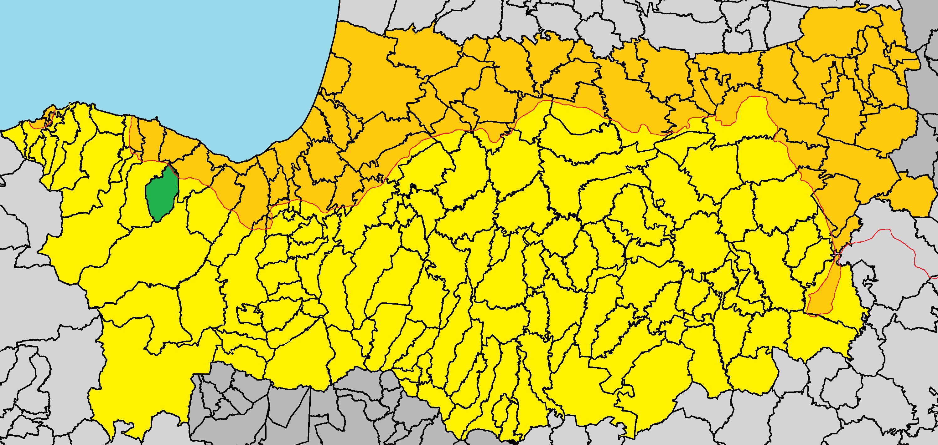 Variseia in Nicosia District.